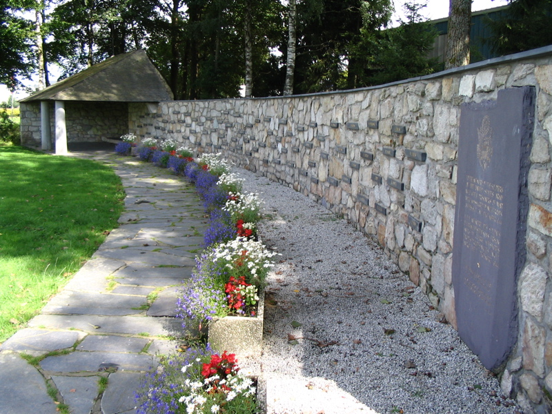 The memorial of the Malmedy massacre. This World War II memorial is situated at the crossroads of the hamlet Baugnez (Belgium).